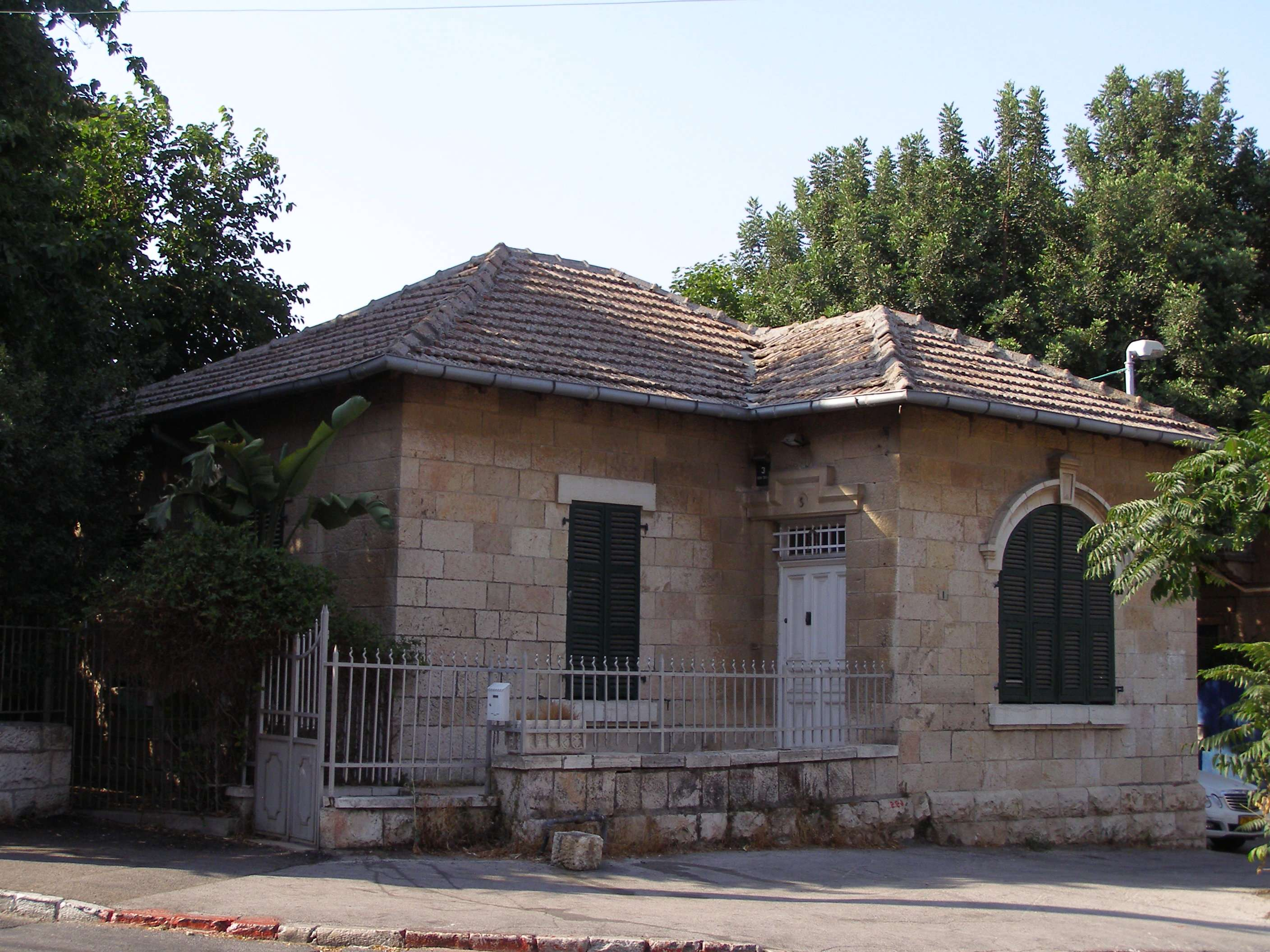 Photios Efklides house, Greek Colony, Jerusalem